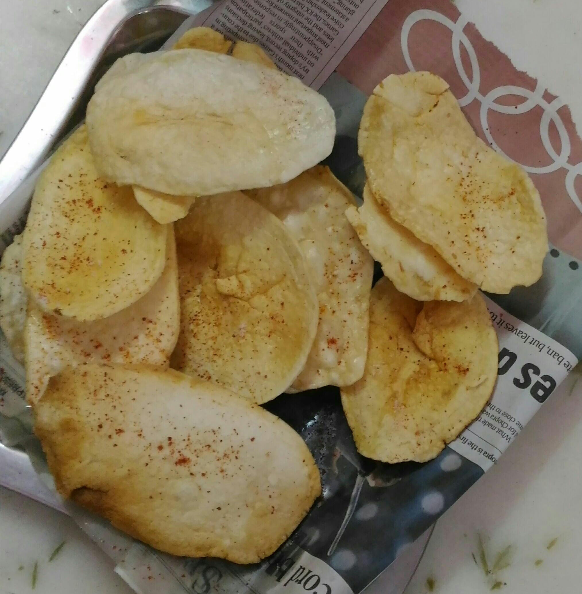 Potato chips with red chilly powder and salt